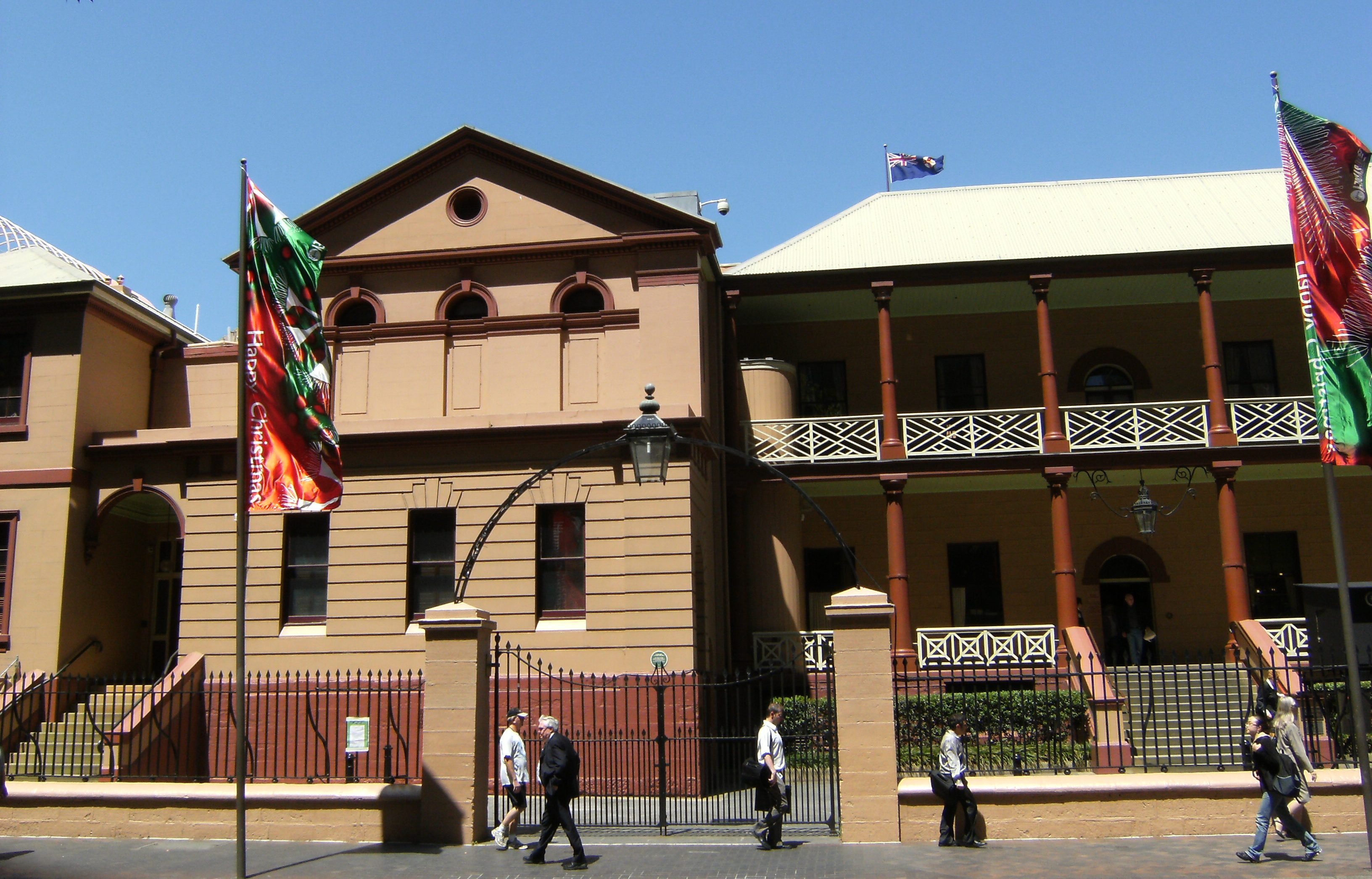 Parliament House, Macquarie St Sydney